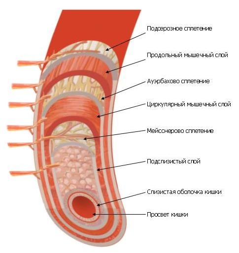 Small intestine. Shown layers of wall.